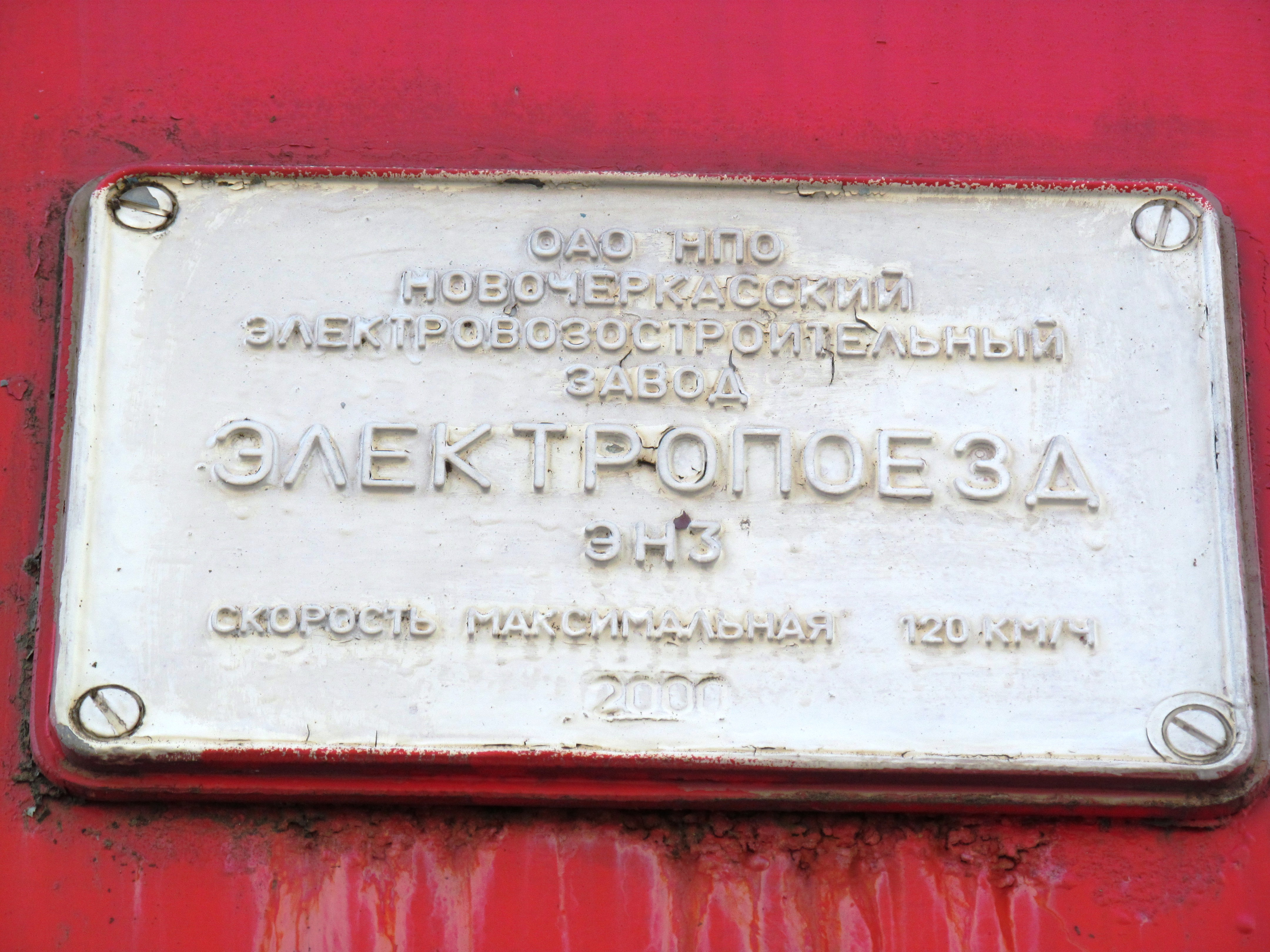 EN3 EMU factory label (car EN3-001.05, Rostov Museum of railway equipment)